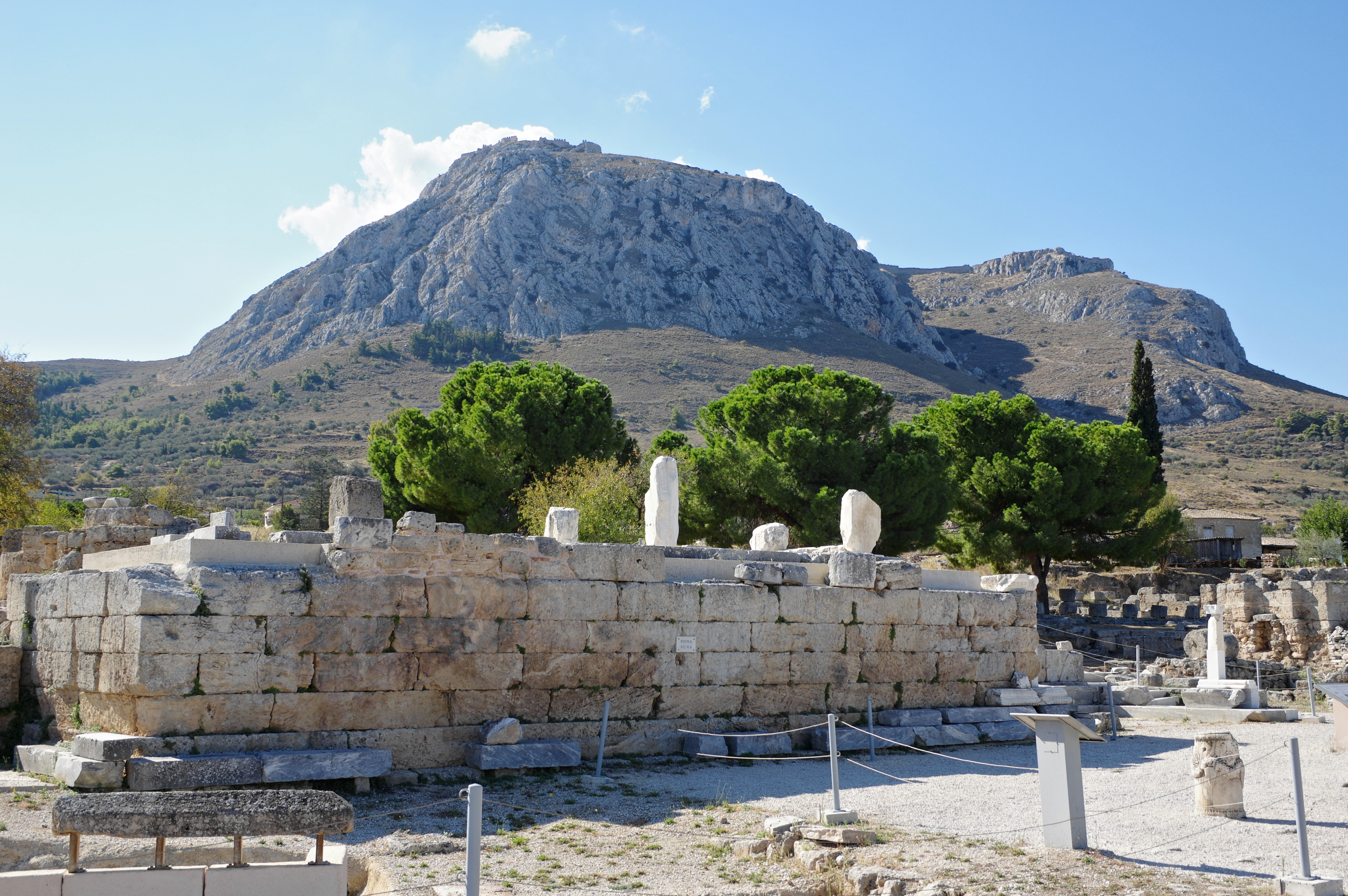 Greece, Ancient Corinth, Agora, Bema, Acrocorinth in the background